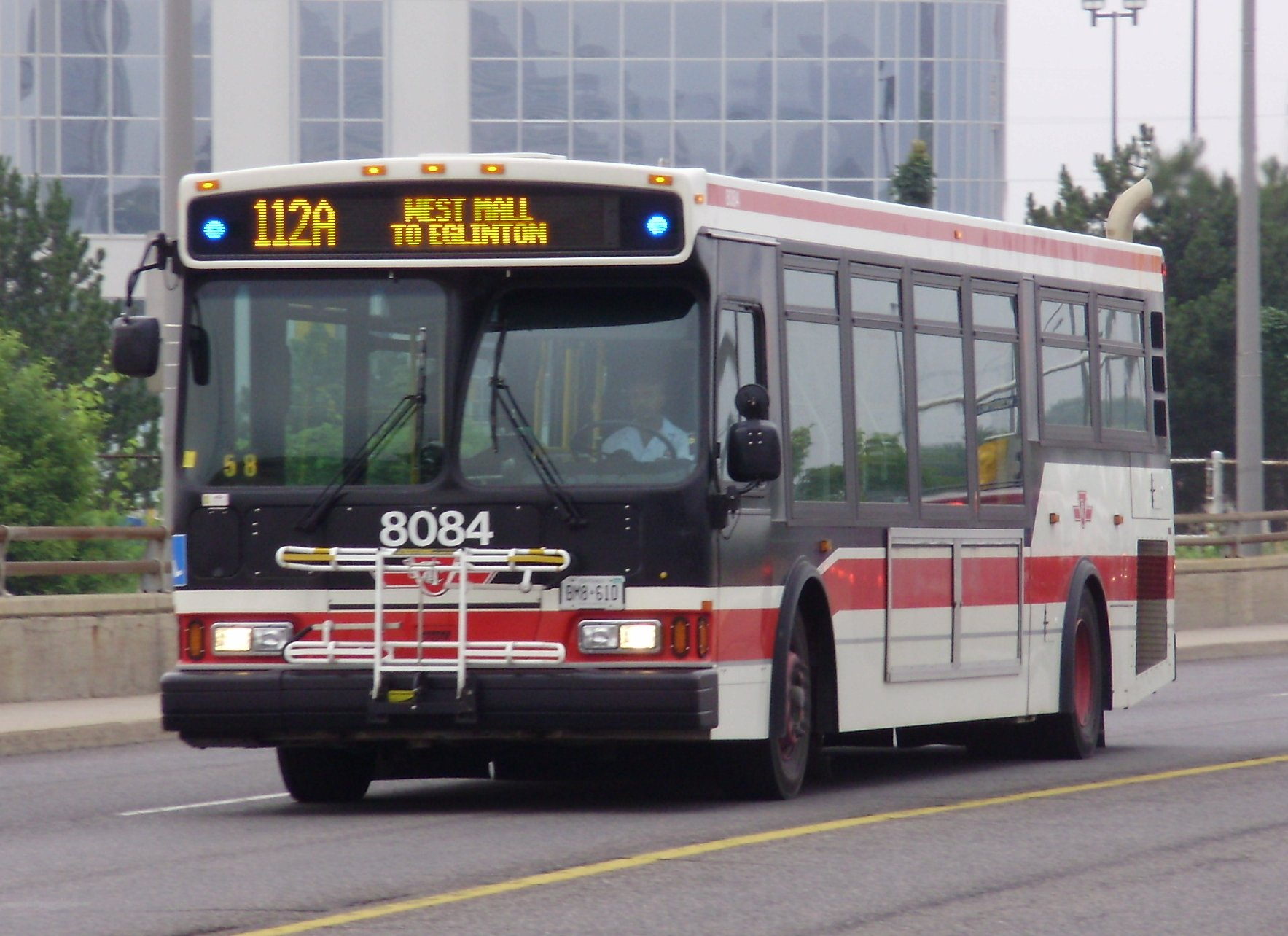 TTC bus #8084, an Orion Bus Industries Orion VII model with forward bicycle rack retracted, serving the 112A West Mall route as it crosses above Dundas Street in Etobicoke, Ontario.